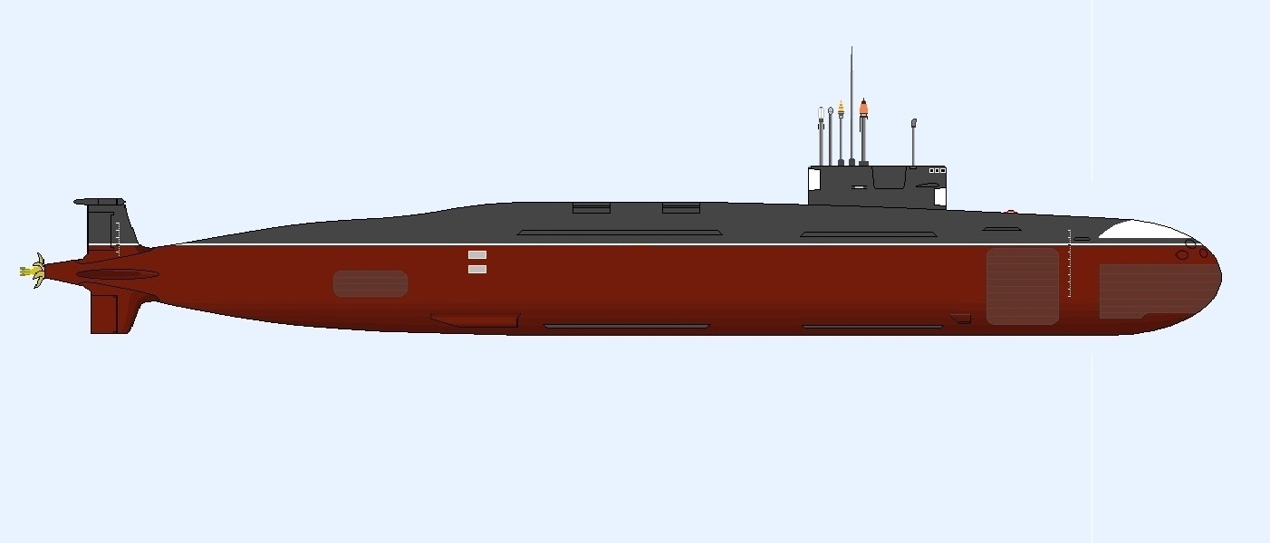 Arihant class Submarine